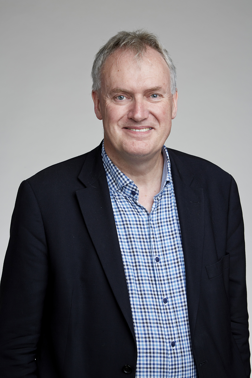 Luke Anthony John O'Neill FRS is Professor of Biochemistry in the School of Biochemistry and Immunology at Trinity College Dublin. Attribution: The Royal Society